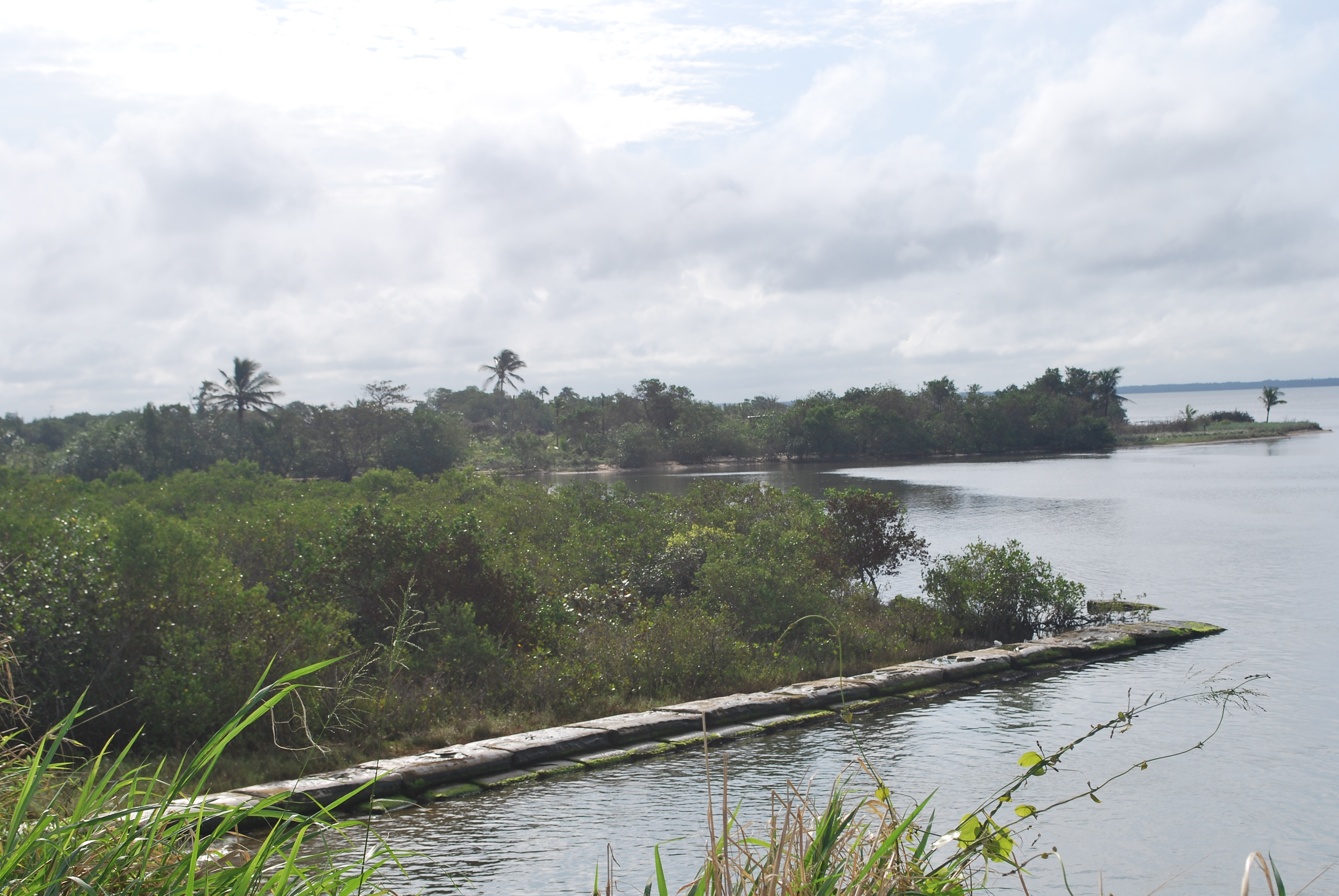 Gulf front by Sanchez Magallanes, Tabasco